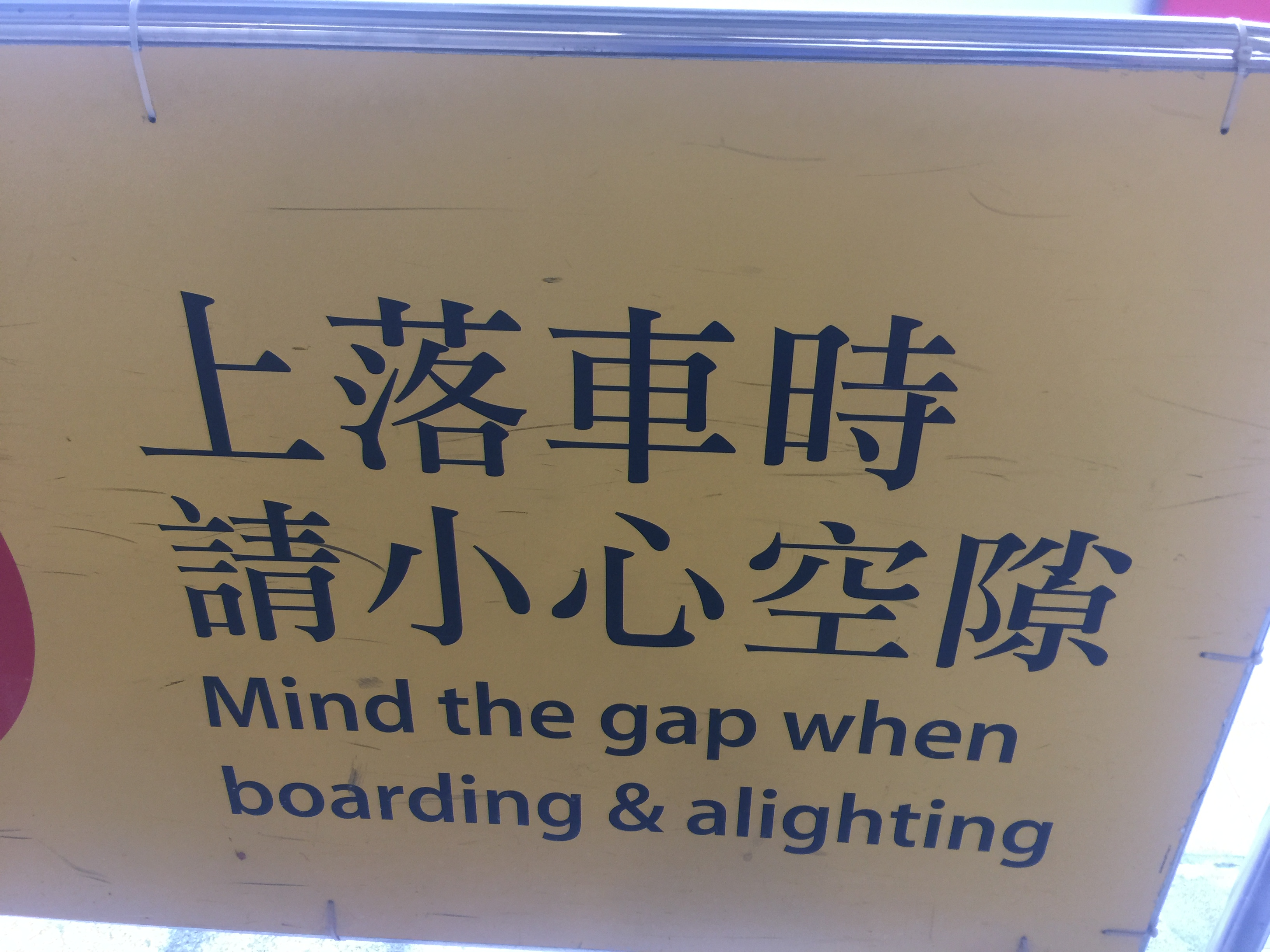 Cantonese at an MTR station, Hong Kong